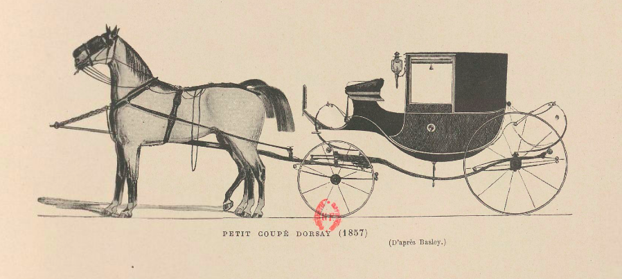 Petit Coupé Dorsay' (1857), reproduced in Faverot de Kerbrech, François (1837-1921), L'Art de conduire et d'atteler, autrefois, aujourd'hui, printed in Paris, by Chapelot, 1903.